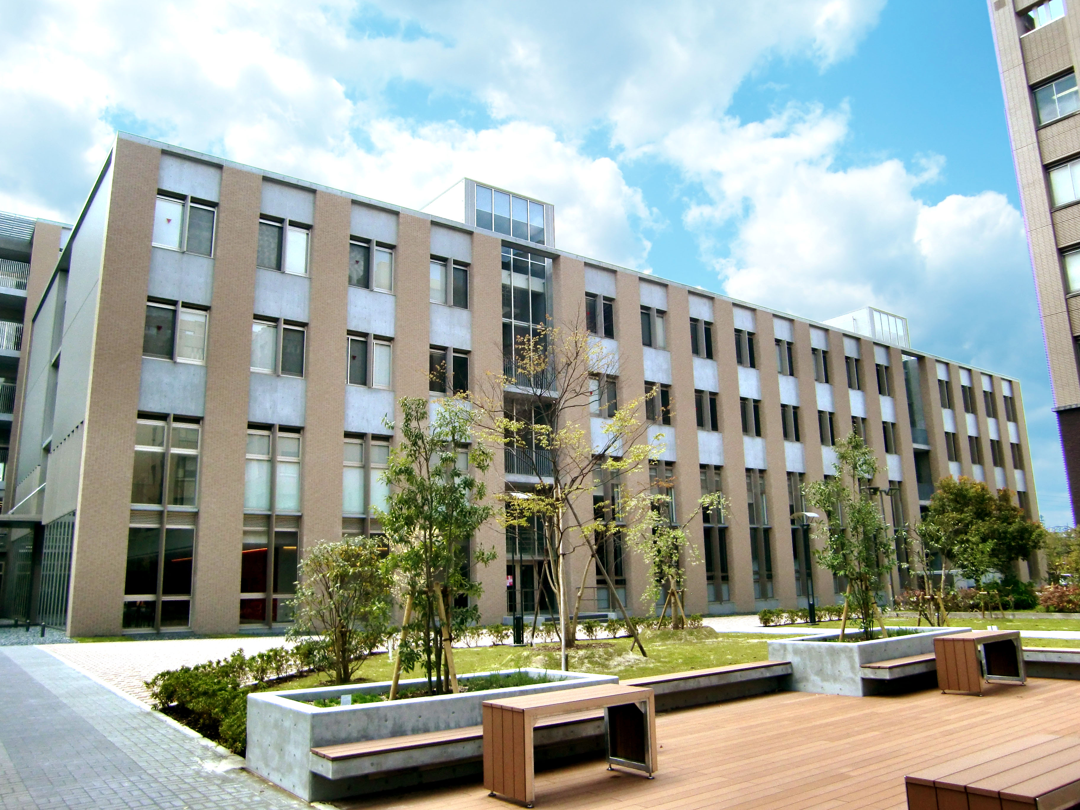 Rarcadia (Ritsumeikan University Biwako Kusatsu Campus), 1-1-1 Nojihigashi Kusatsu-City Shiga JAPAN.